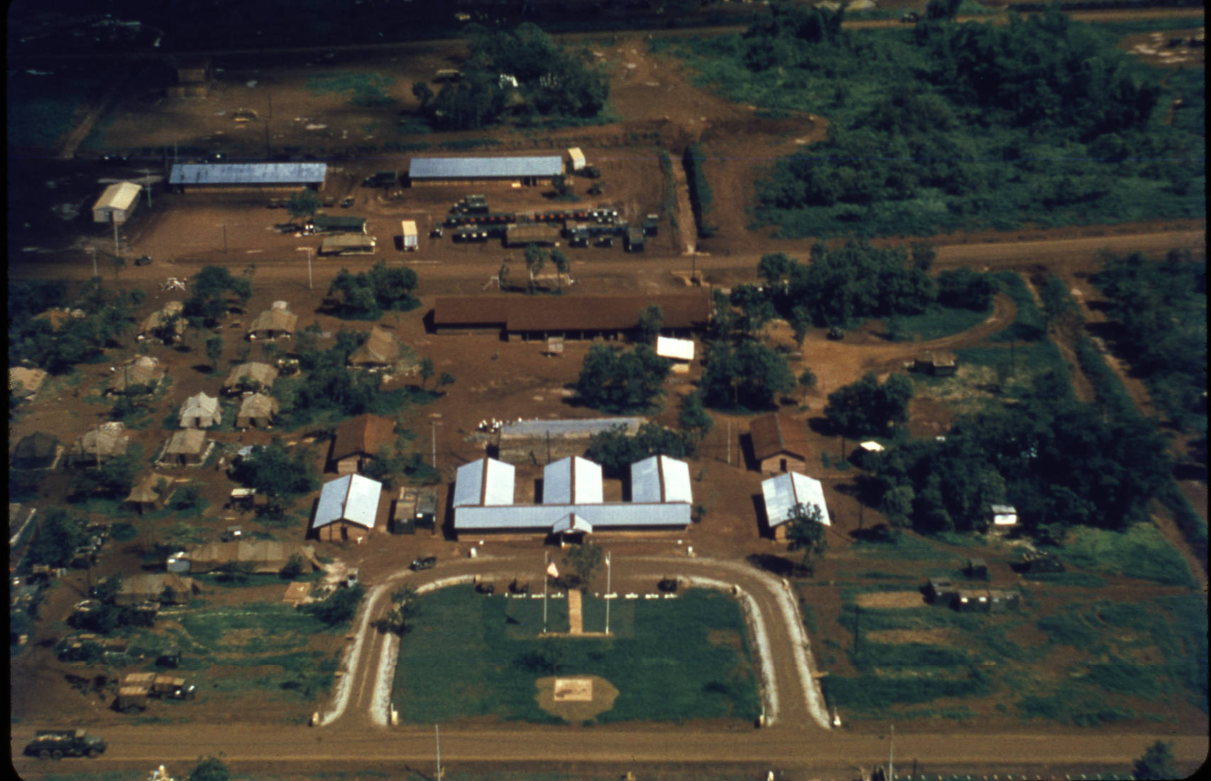 Headquarters building of the 11th Armored Cavalry Regiment at Blackhorse near Xuan Loc